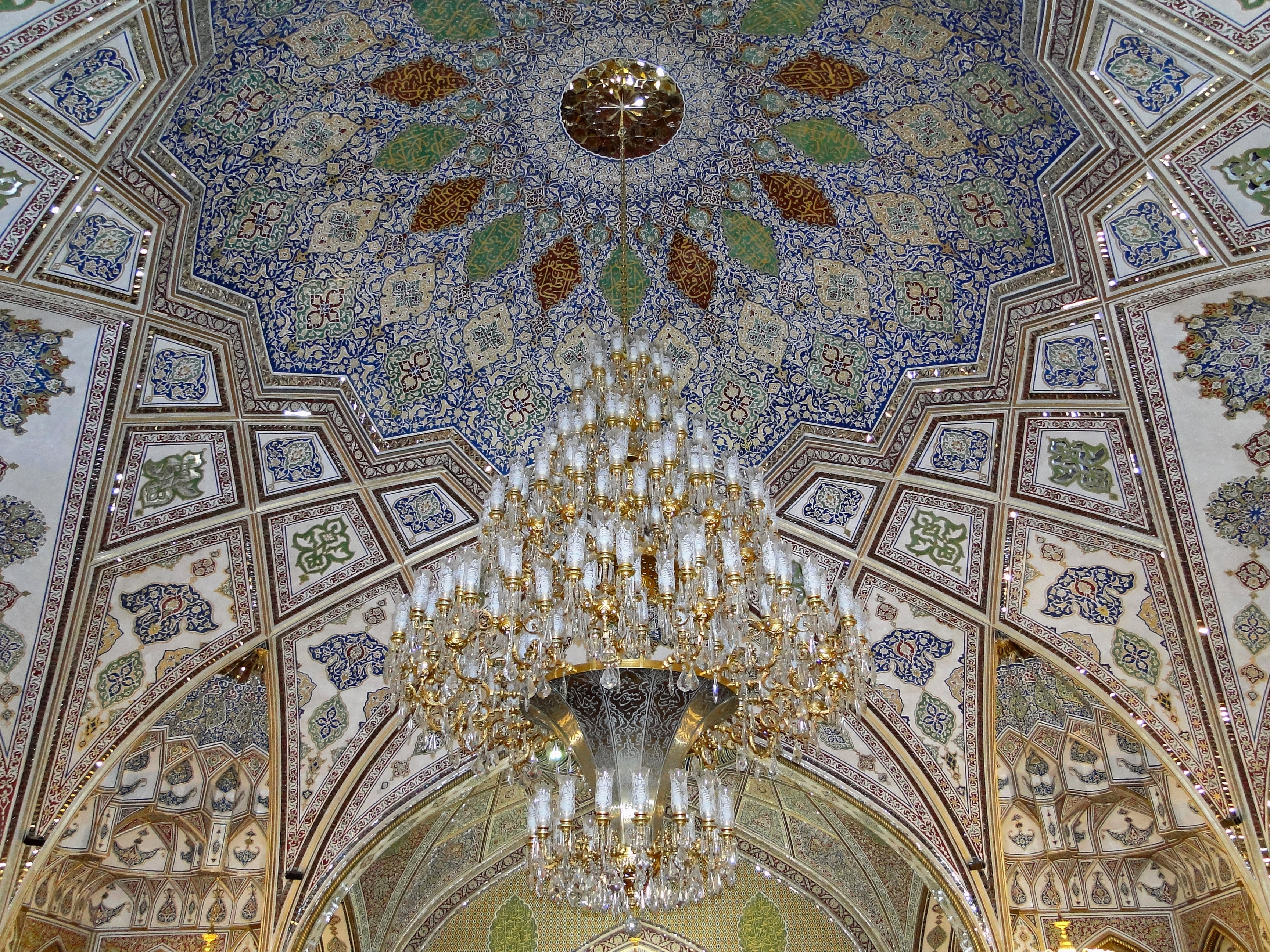 Chandelier in Sayyidah Ruqayya Mosque, Damascus, Syria